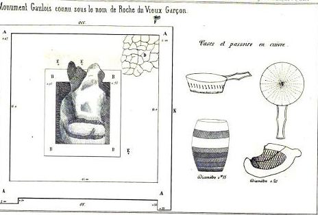 Celtic trilithe called "le Vieux-Garçon" ("the Old-Boy") that stood in the Bois de la Garenne, at the top of a hill near the celtic oppidum in Triguères, Loiret. The dolmen was buried by the landowner at the end of XIXe century. The sandstone that made it is not local material - the nearest deposit of such sandstone is 60 km away.